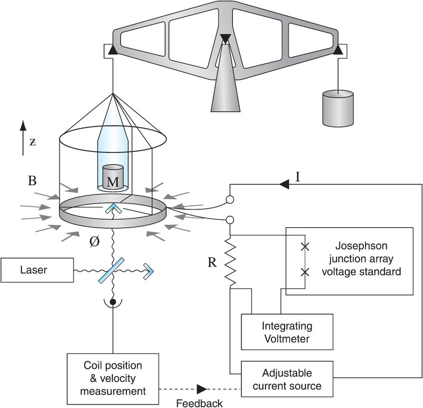 Schematic representation of a kibble balance in weighing mode